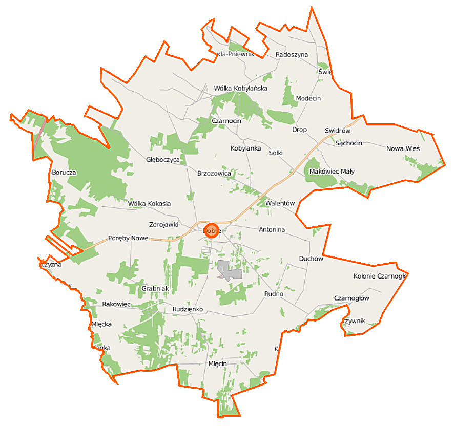 Map of Gmina Dobre, Poland This map of Dobre (gmina w województwie mazowieckim) was created from OpenStreetMap project data, collected by the community. This map may be incomplete, and may contain errors. Don't rely solely on it for navigation. Border coordinates52.397221.5648←↕→21.808952.2568